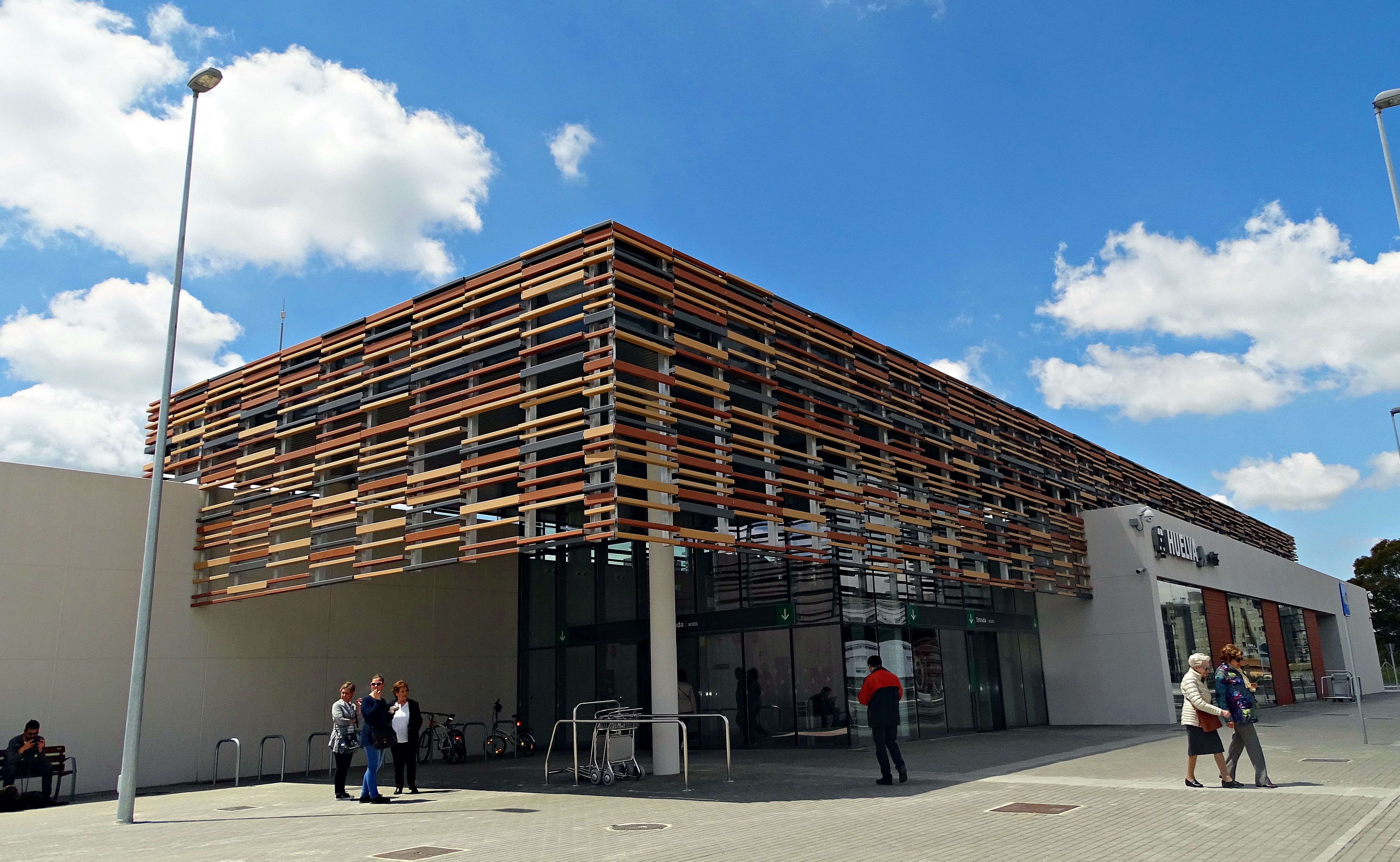 Huelva-Las Metas train station, Spain.